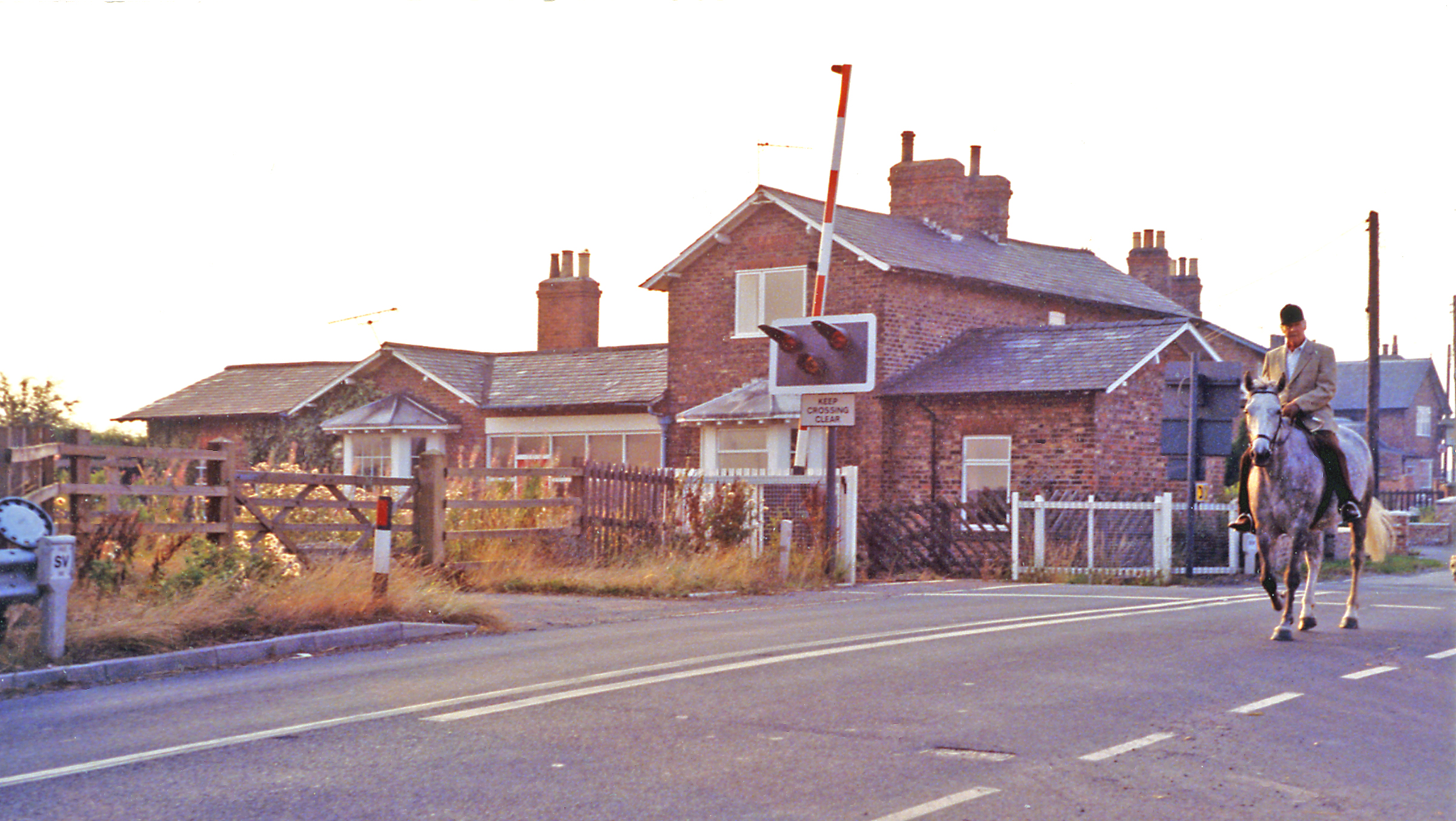 Former Flaxton station, 1991. View NW, on the ex-NER York (to left) - (to right) Malton - Scarborough main line. The station was closed to passengers 22/9/30, along with all the other local stations between York and Malton - to facilitate holiday traffic, but to goods not until 10/8/64; the line remains active for through traffic.